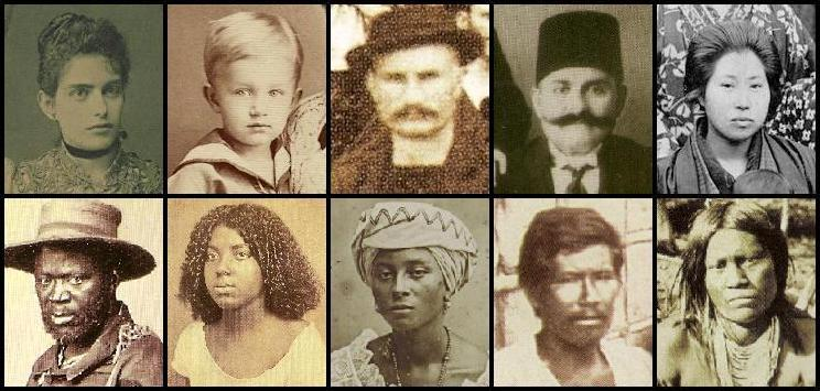 Brazilians from the end of the 19th century to the very begining of the 20th century. First roll from left to right: A Portuguese-Brazilian woman, a German-Brazilian boy, an Italo-Brazilian man, an Arab-Brazilian and a Japanese-Brazilian woman. Second roll from left to right: an Afro-Brazilian man, a Cafuzo girl, a Mulatto woman, a Caboclo man and an Indian woman.